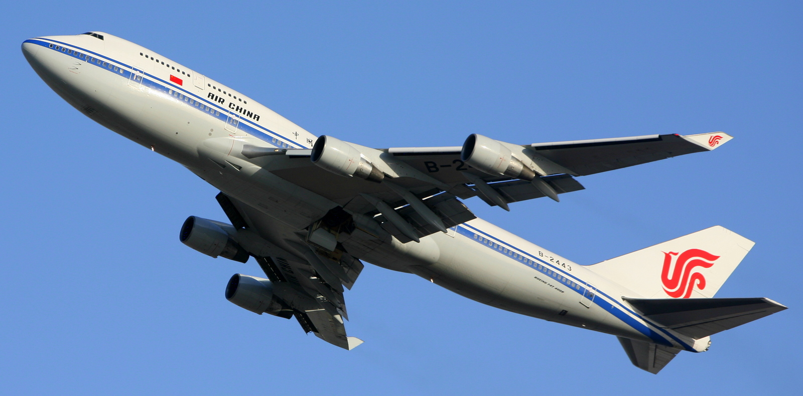 An Air China Boeing 747 taking off from Beijing Capital Airport